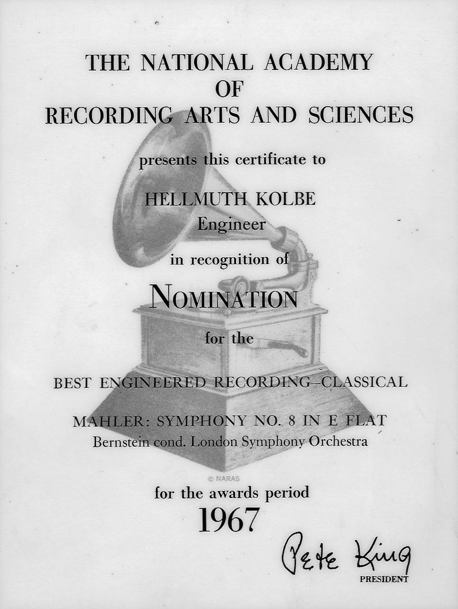 Hellmuth Kolbe’s recognition of nomination for the best engineered recording – classical – for awards period 1967, issued by the US National Academy of Recording Arts and Sciences (Grammy Award). The winner in this category was engineer Edward (Bud) T. Graham for “The Glorious Sound of Brass” and Leonard Bernstein (artist) in tie with John McClure (producer) won the Grammy for the 1967 Album of the Year – Classical –, Mahler’s Symphony No. 8, Symphony of a Thousand.